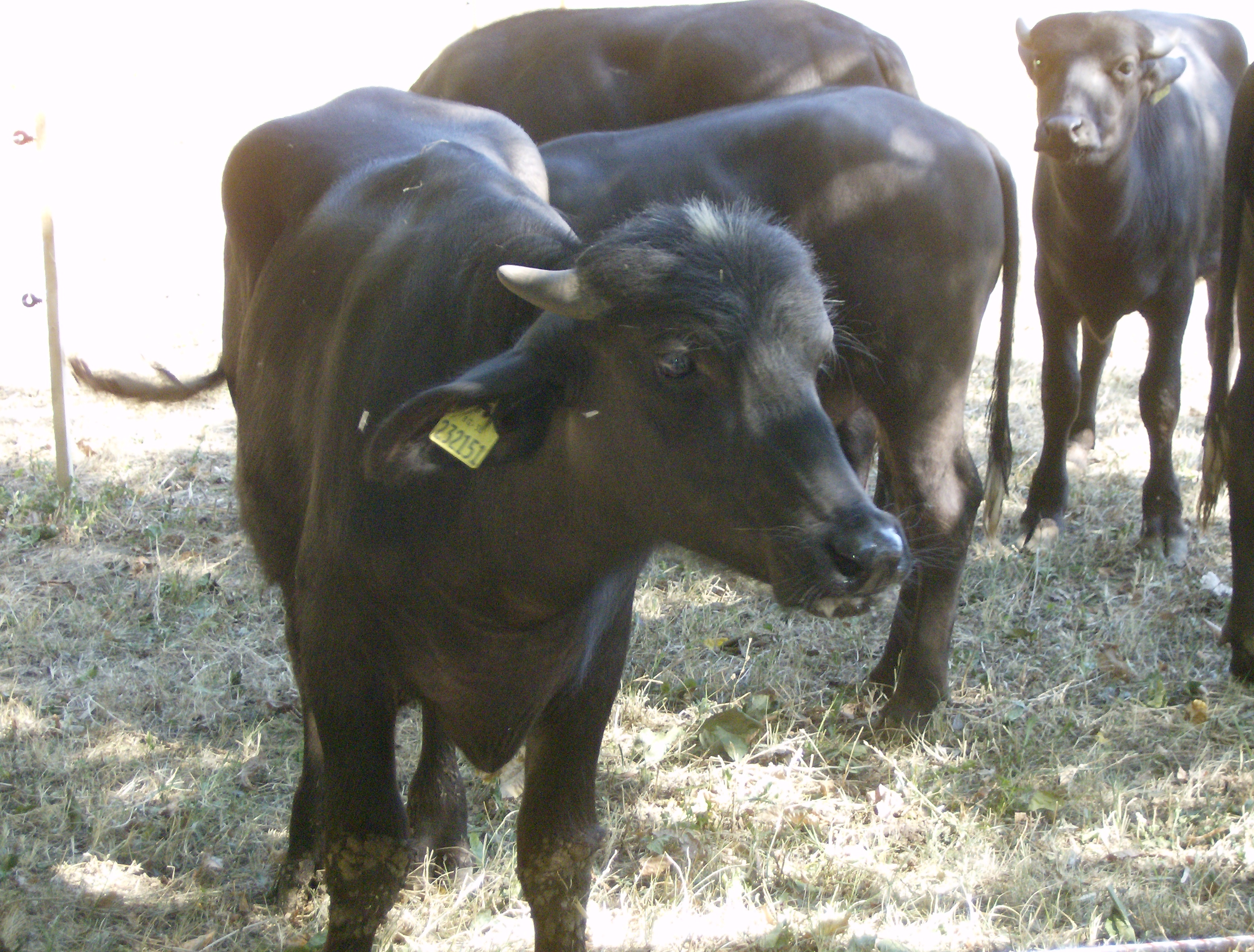 Bulgarian Murrah